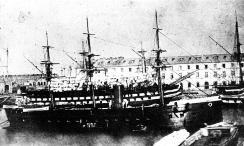 This photo is from the Marius Bar collection, but probably not taken by him, as he started working in the 1880's, and the Normandie was discarded in 1871.